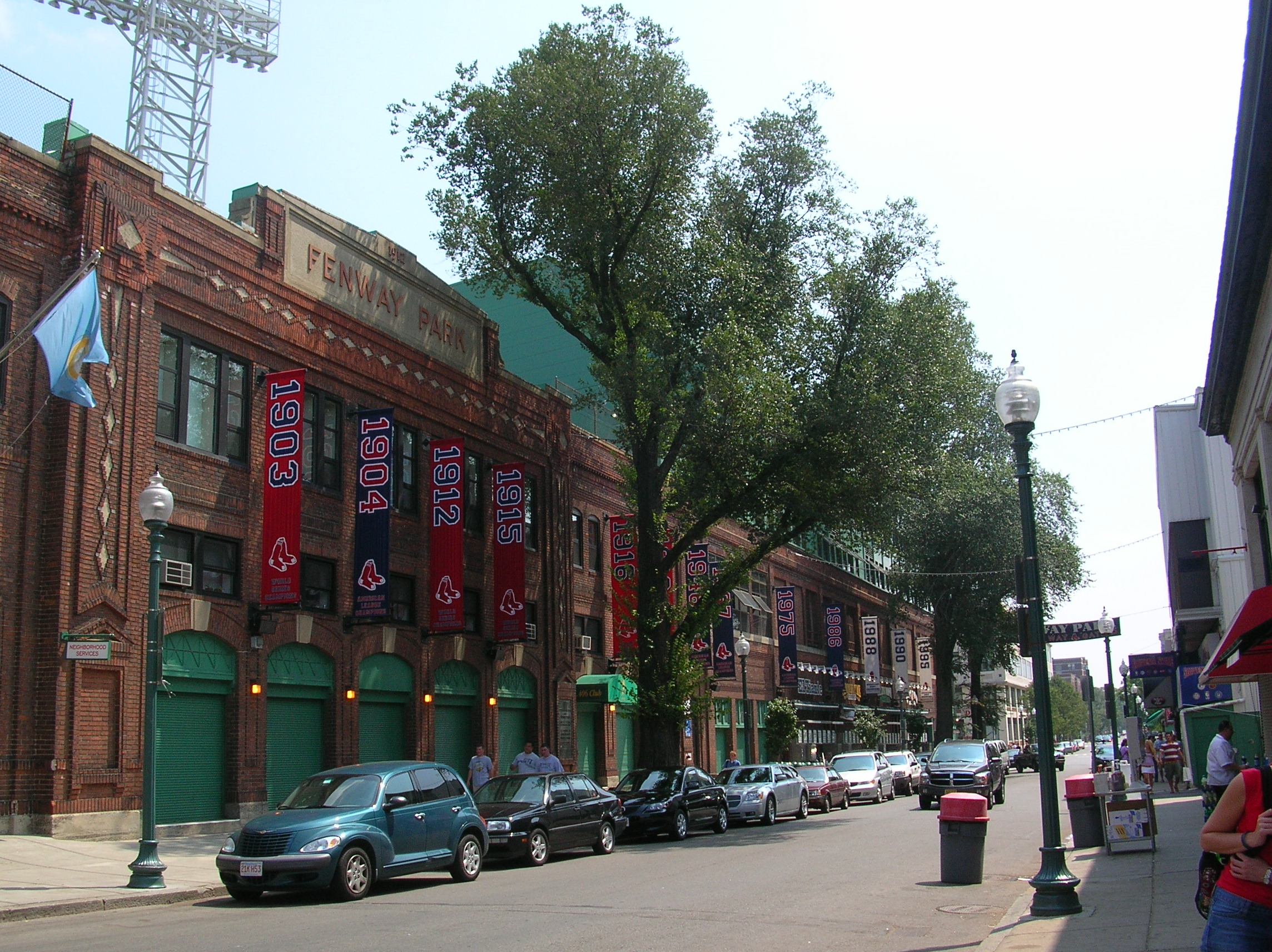 The Front of Fenway Park, closed